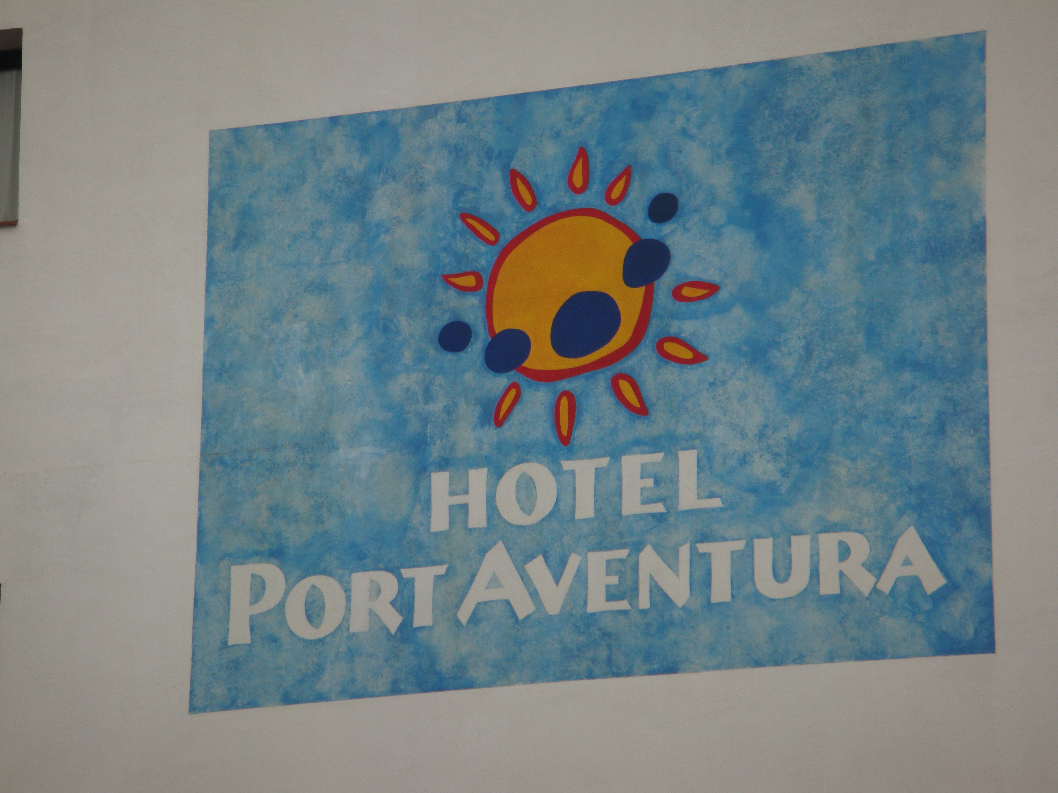 Hotel Port Aventura in Port Aventura.